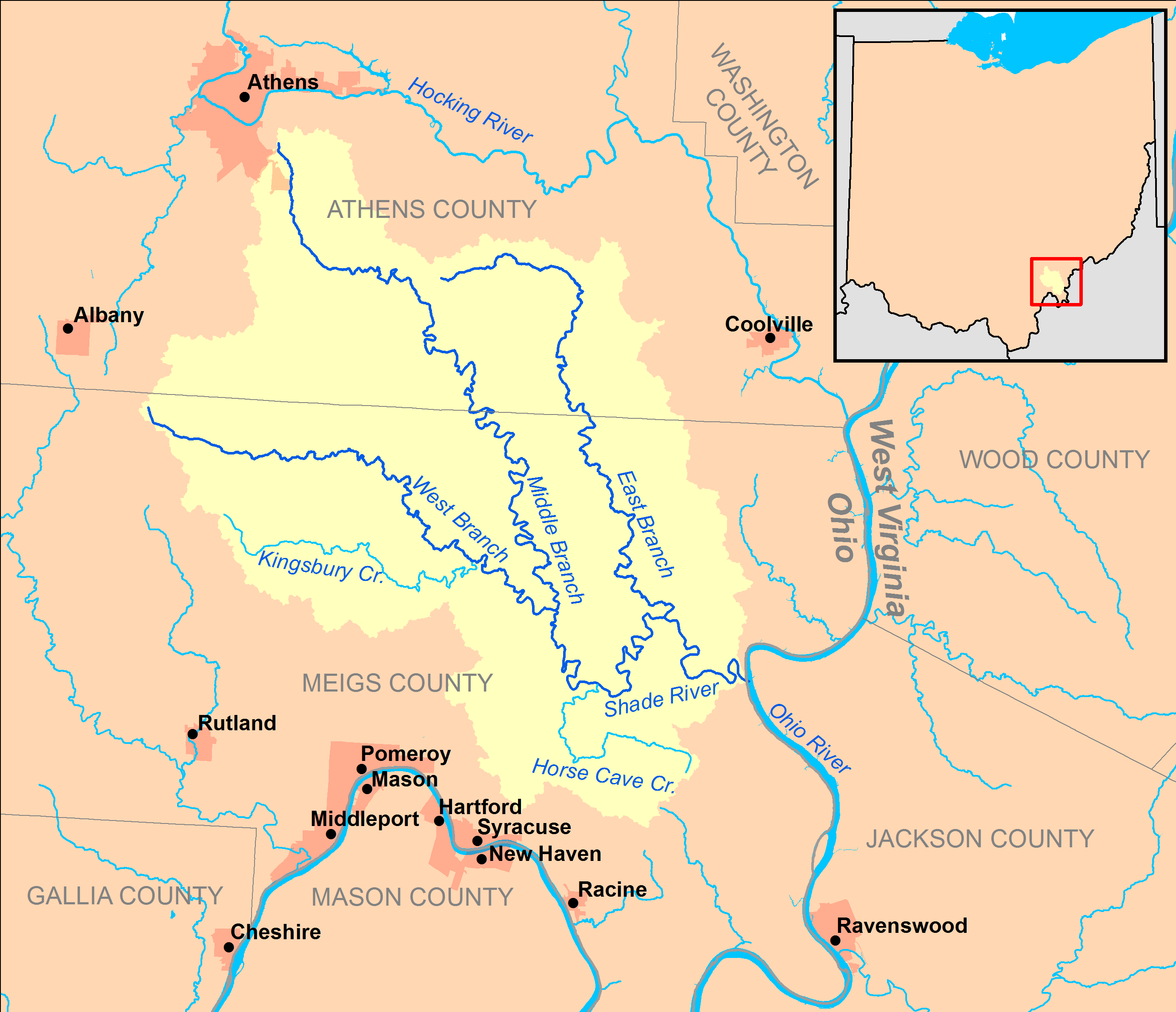 A map of the Shade River and its watershed (USGS HUC-12 codes 050302020201, 050302020202, 050302020203, 050302020204, 050302020205, 050302020301, 050302020302, 050302020303, and 050302020304) in Meigs and Athens counties in Ohio.